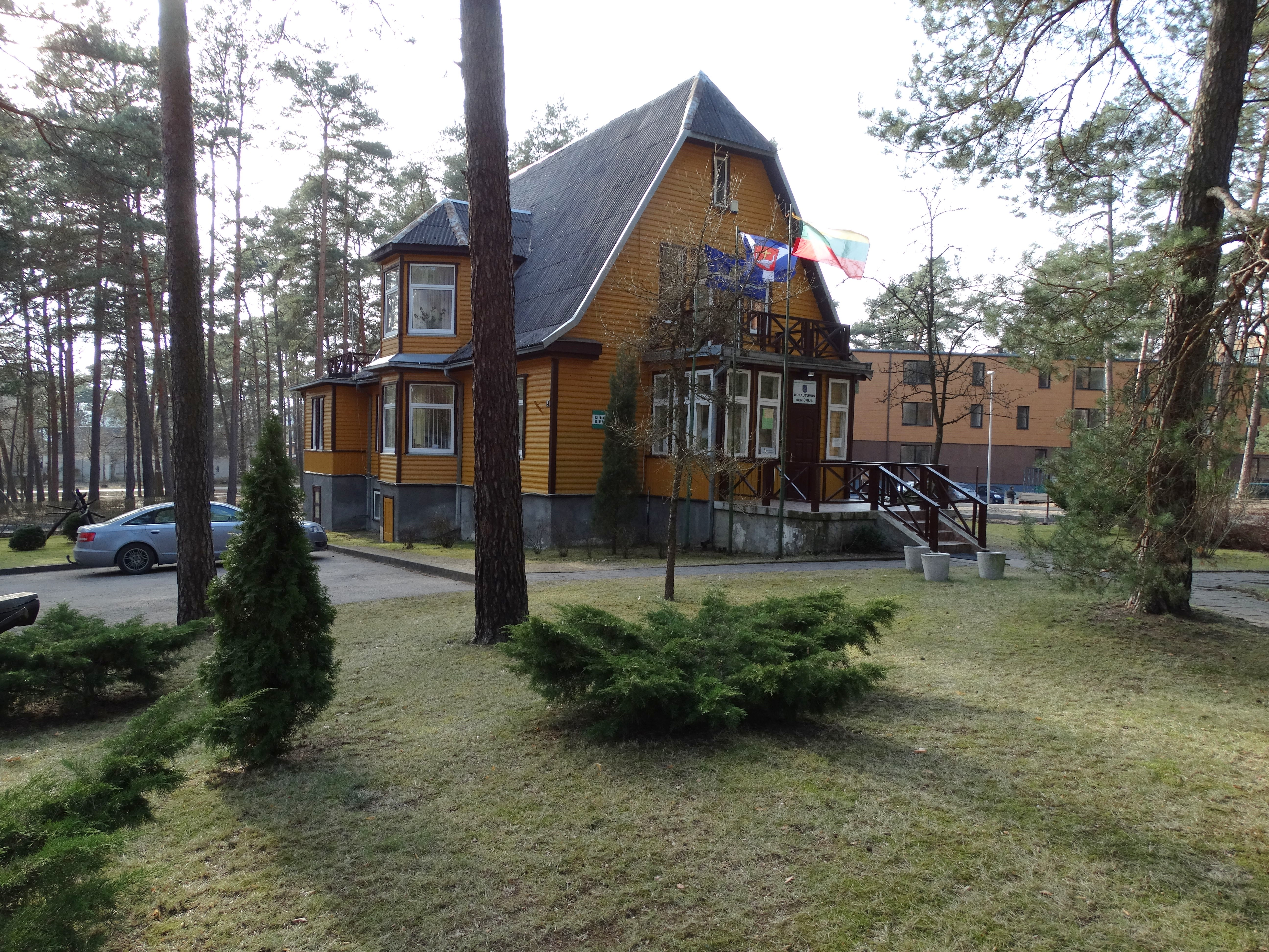 Eldership, Kulautuva, Kaunas district. Lithuania